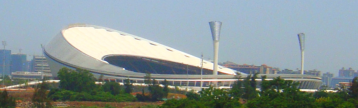 Wuyuan River Stadium, Haikou, Hainan, China. The photo was taken from the south side on 2018-05-08.